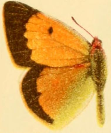 Plate from The Macrolepidoptera of the World. Vol. 1: Colias aurorina